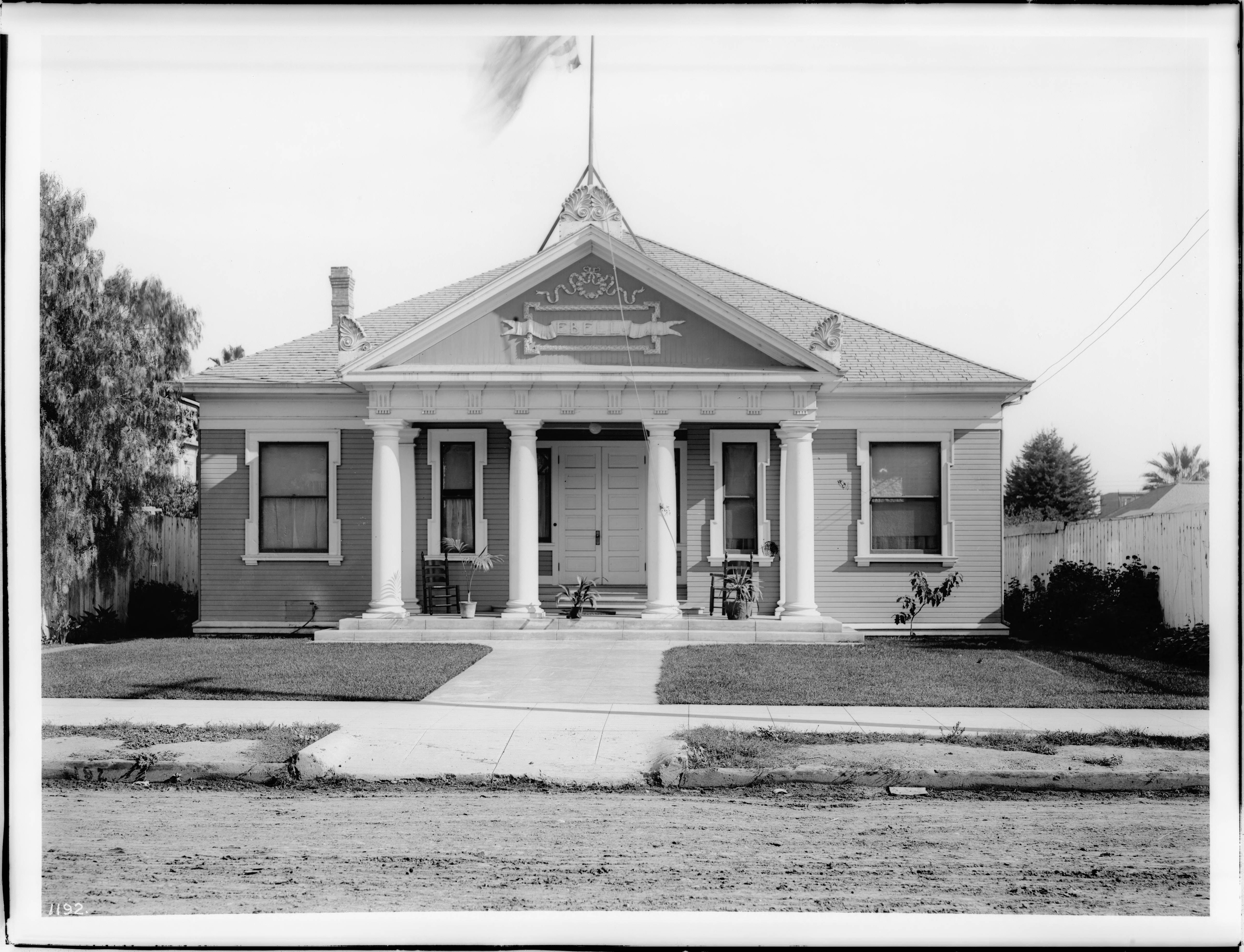 Exterior view of the First Ebell Club house on Broadway, ca.1905 Photograph of the first Ebell Club (women's club) clubhouse on Broadway, south of Seventh Street, ca.1905. The one-story building has a portico in front and a flag flying from a pole on the peak of its roof. A decorative carved banner over the door reads "Ebel". It appears to be in a residential neighborhood, having a front yard, walk, and fences on both sides. Call number: CHS-1192 Legacy record ID: chs-m2077; USC-1-1-1-2137 Photographer: C.C. Pierce & Co. Filename: CHS-1192 Coverage date: circa 1905 Part of collection: California Historical Society Collection, 1860-1960 Type: images Geographic subject (city or populated place): Los Angeles Repository name: USC Libraries Special Collections Accession number: 1192 Microfiche number: 1-1-11; 1-2-11 Archival file: chs_Volume33/CHS-1192.tiff Part of subcollection: Title Insurance and Trust, and C.C. Pierce Photography Collection, 1860-1960 Repository address: Doheny Memorial Library, Los Angeles, CA 90089-0189 Geographic subject (country): USA Format (aacr2): 2 photographs: photoprint, glass photonegative, b&w ; 20 x 25 cm., 17 x 22 cm. Rights: Digitally reproduced by the USC Digital Library; From the California Historical Society Collection at the University of Southern California Subject (adlf): buildings Project: USC Repository Contributing entity: California Historical Society Date created: circa 1905 Publisher (of the digital version): University of Southern California. Libraries Format (aat): photographic prints; photographs Geographic subject (state): California Subject (file heading): Los Angeles -- Architecture -- Social organizations Format: glass plate negatives Access conditions: Send requests to address or e-mail given. Phone (213) 821-2366; fax (213) 740-2343. Geographic subject (county): Los Angeles Geographic subject (roadway): Broadway Subject (lcsh): Associations, institutions, etc.; Clubs Subject: Ebell Club